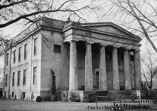 Old Medical College, Augusta, Georgia, USA (cropped)